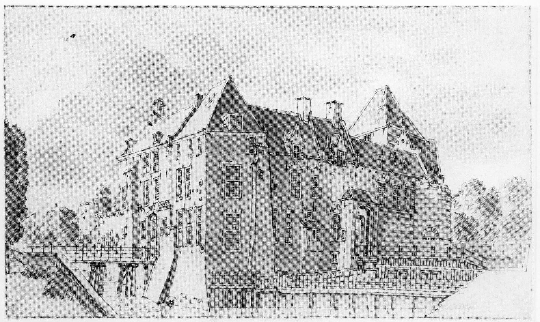 Castle IJsselstein